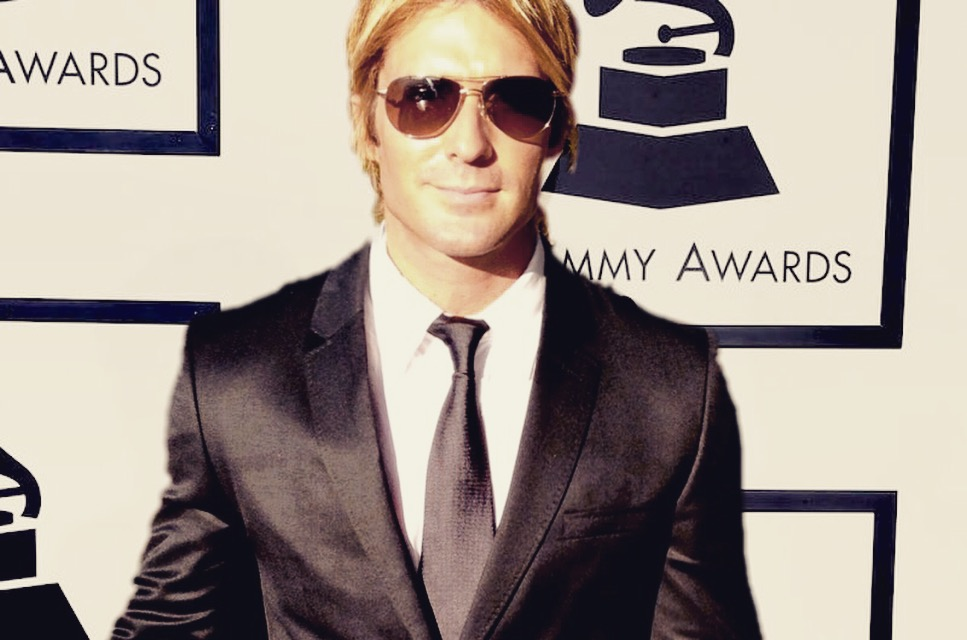 This Photo was taken by me of Recording Artist, Griffin Layne, at the 55th Annual Grammy Awards.